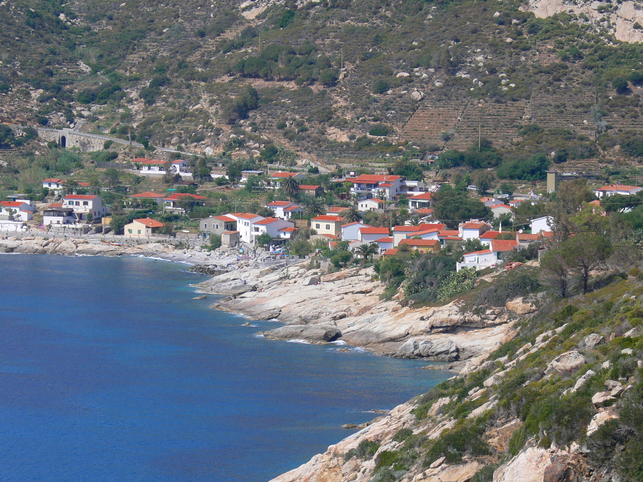 Village of Chiessi.